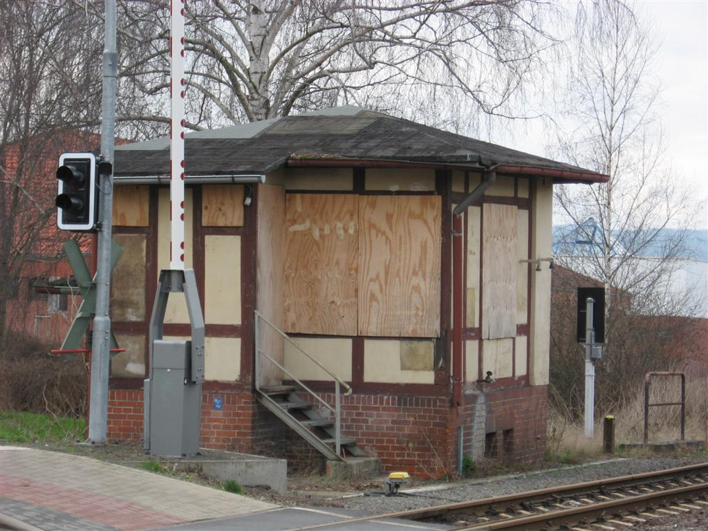 Quedlinburg: near crossing railway and Gernröder Weg